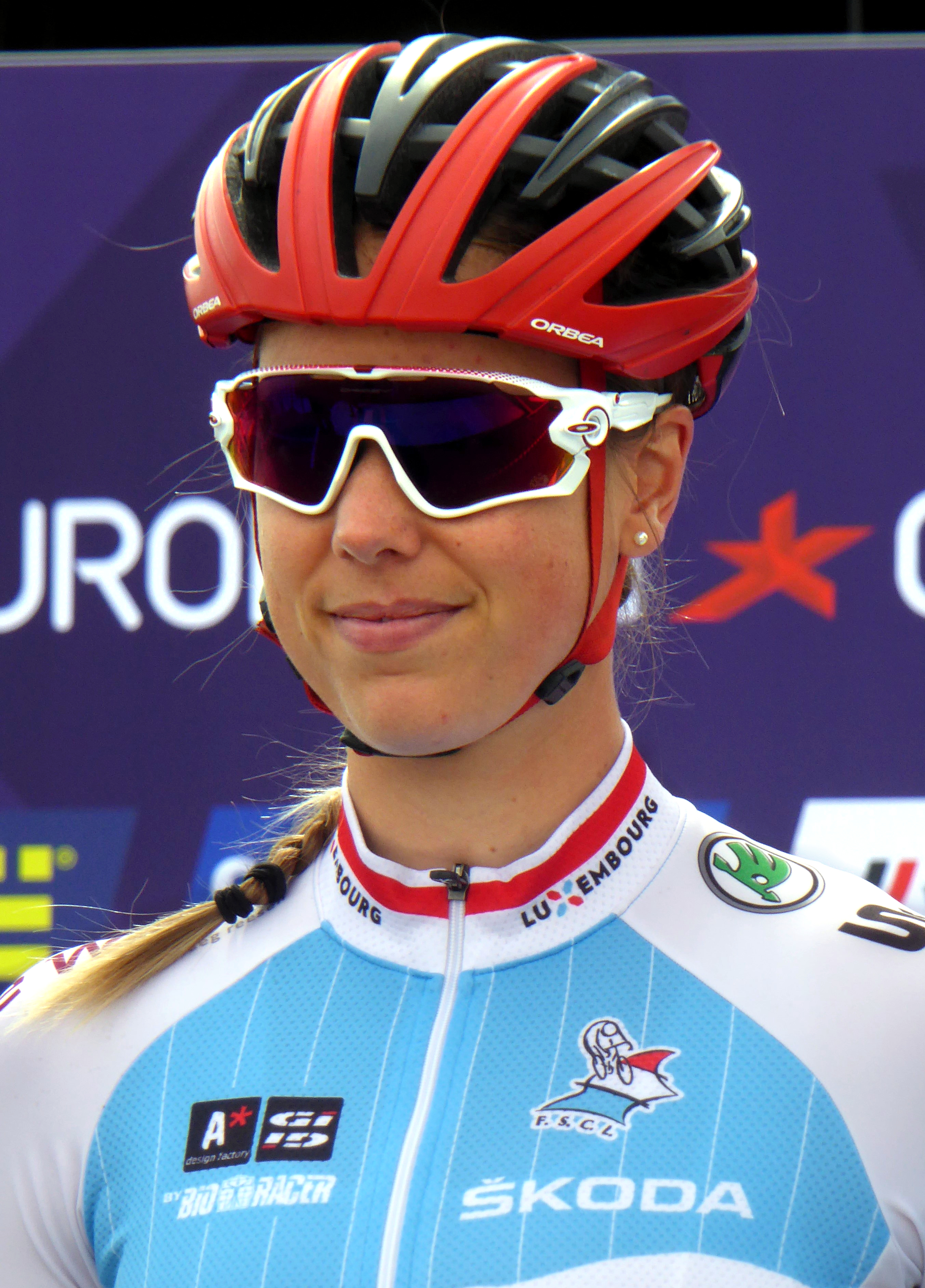 Elise Maes (Luxembourg), prior to the women's road race at the 2018 UEC European Road Cycling Championships in Glasgow.